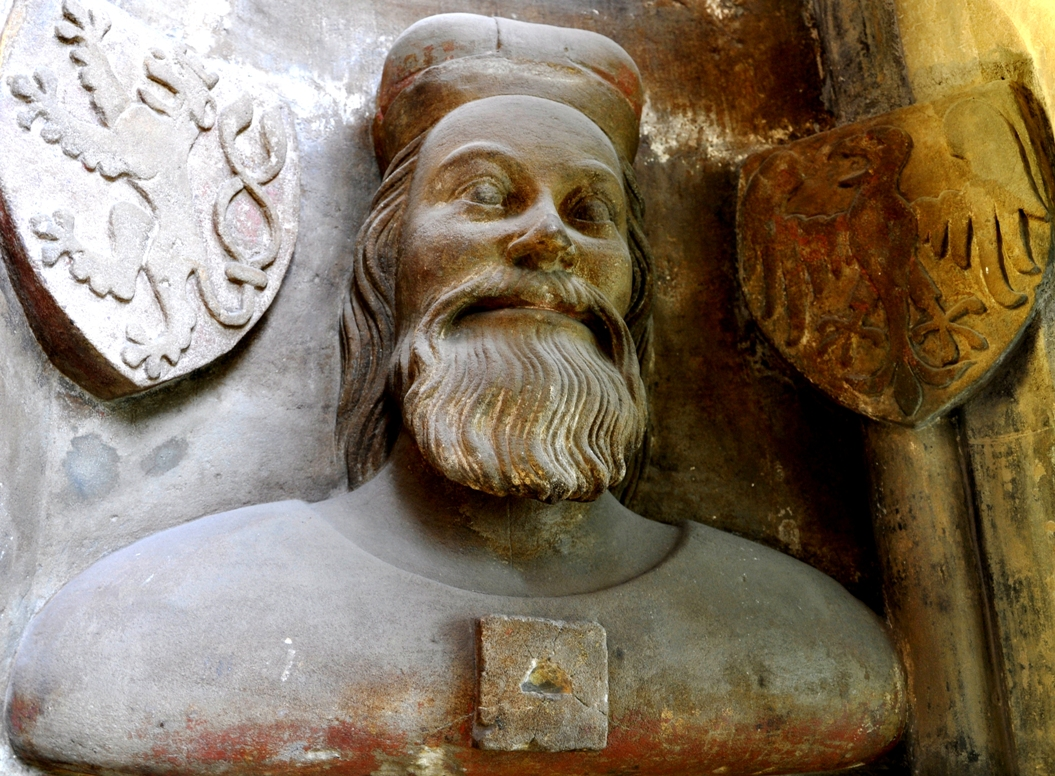 Bust of John Henry, margrave of Moravia. Sandstone, 1370s.